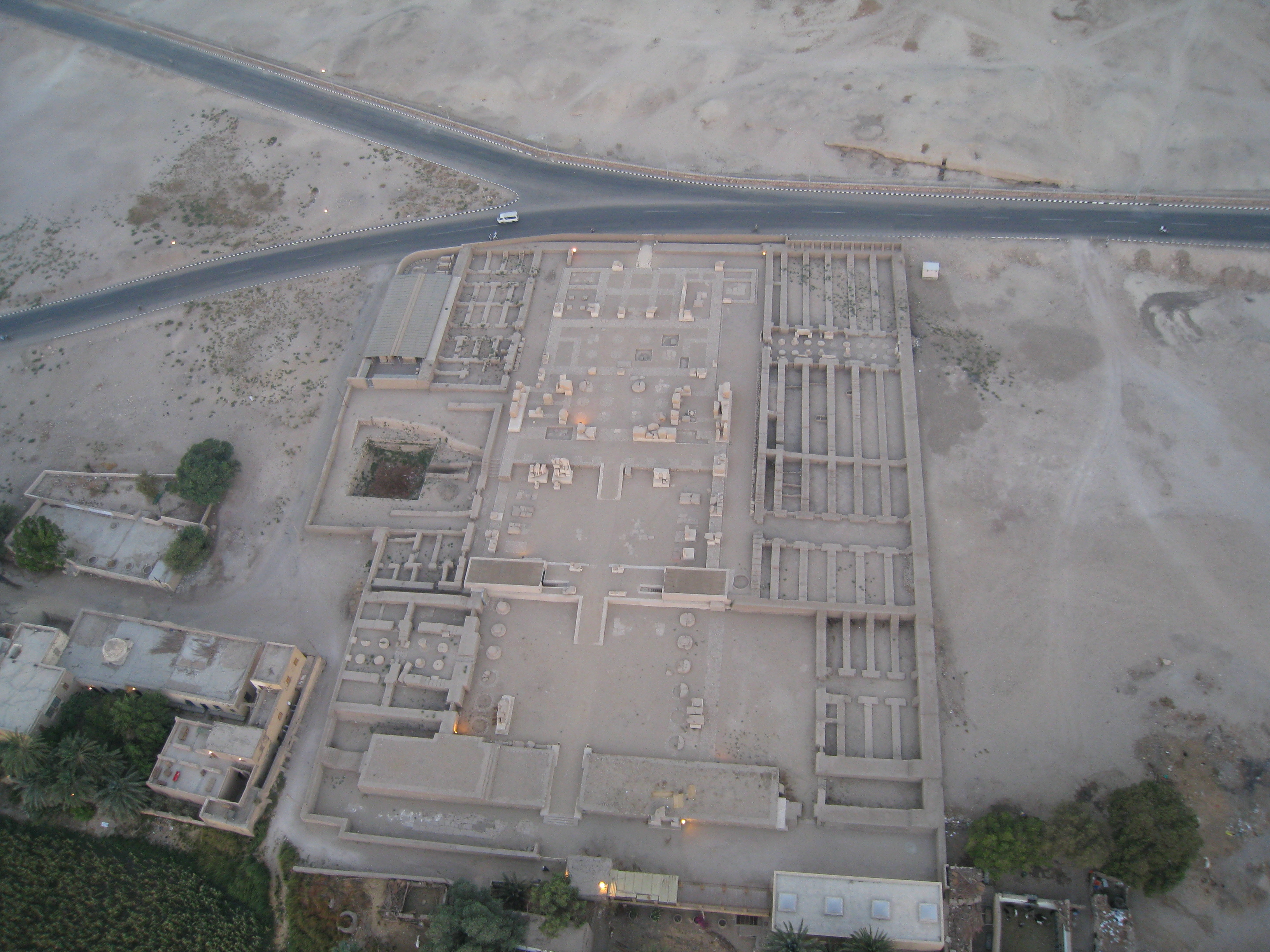 Aerial view of Merenptah's Mortuary Temple, Teby, West Bank, Egypt